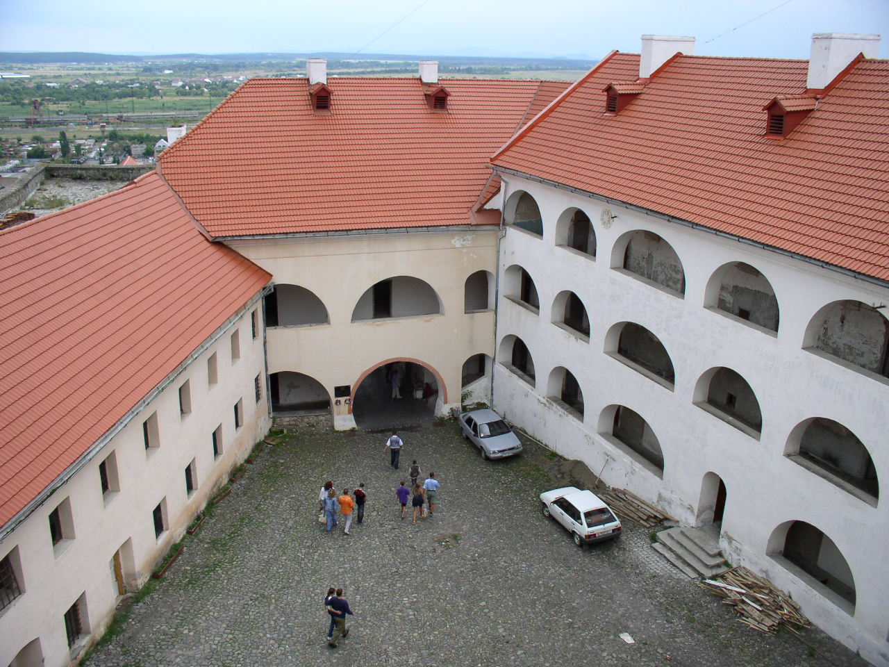 Palanok сastle. Mukacheve, Ukraine.